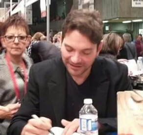 Nicola Ciccone photographed in Montreal, Quebec, Canada at the Salon du livre de Montréal 2015 held inside Place Bonaventure.